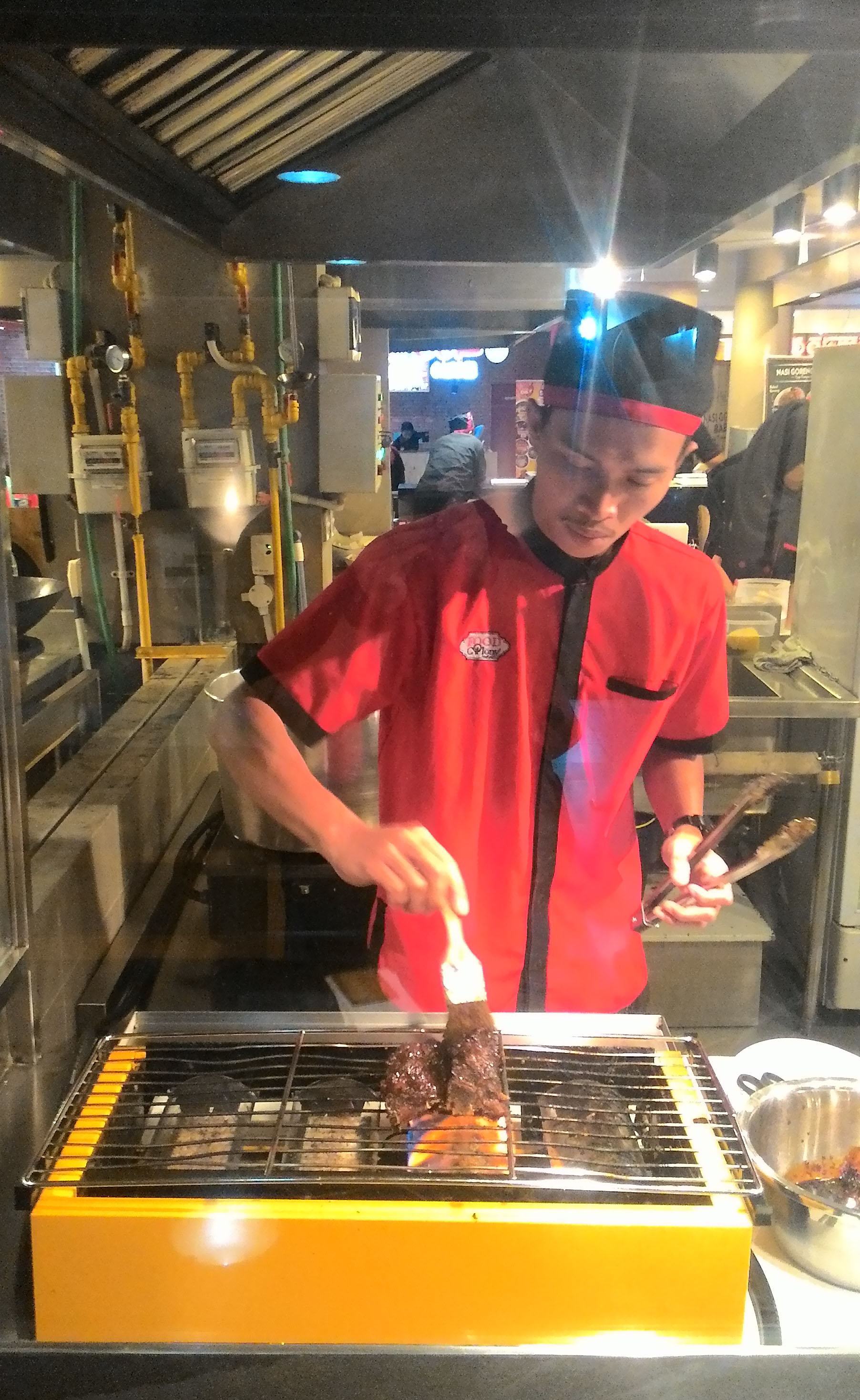 Grillling ribs of Konro Bakar, barbecued spicy ribs, a specialty of Makassar cuisine, South Sulawesi. Served in Food Colony foodcourt in Pasar Festival, South Jakarta, Indonesia.